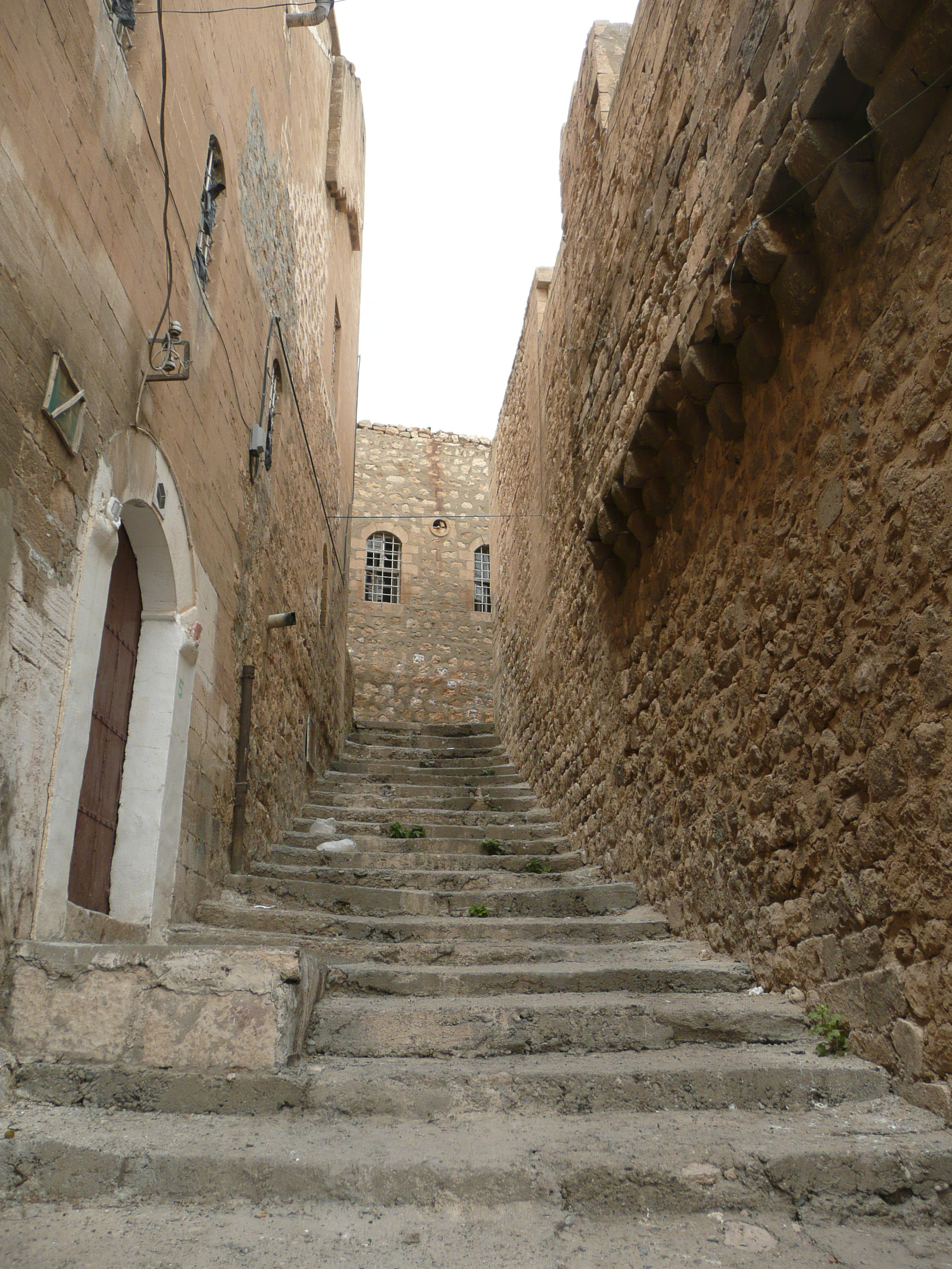 Photographs from Mardin, Turkey